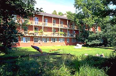 student hostel Biederstein